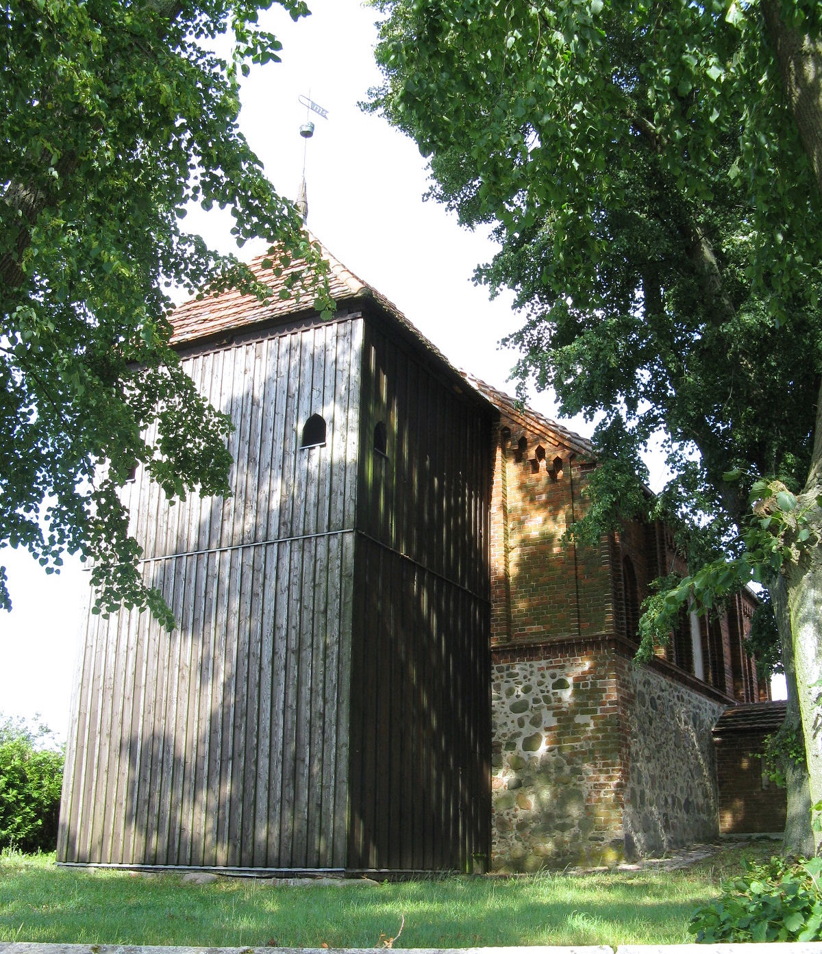 Church in Zepkow, disctrict Mecklenburgische Seenplatte, Mecklenburg-Vorpommern, Germany